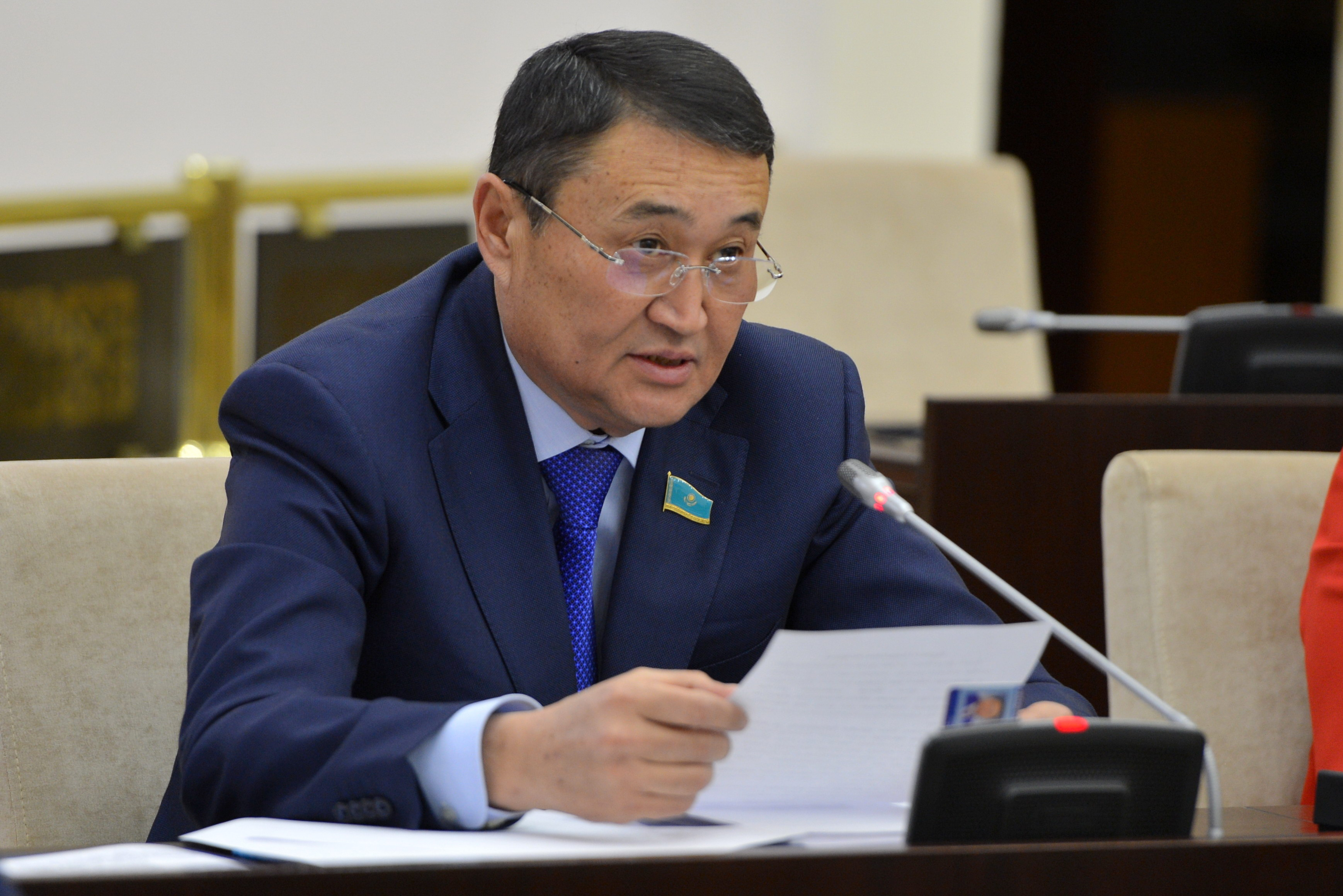 Anzar Musakhanov